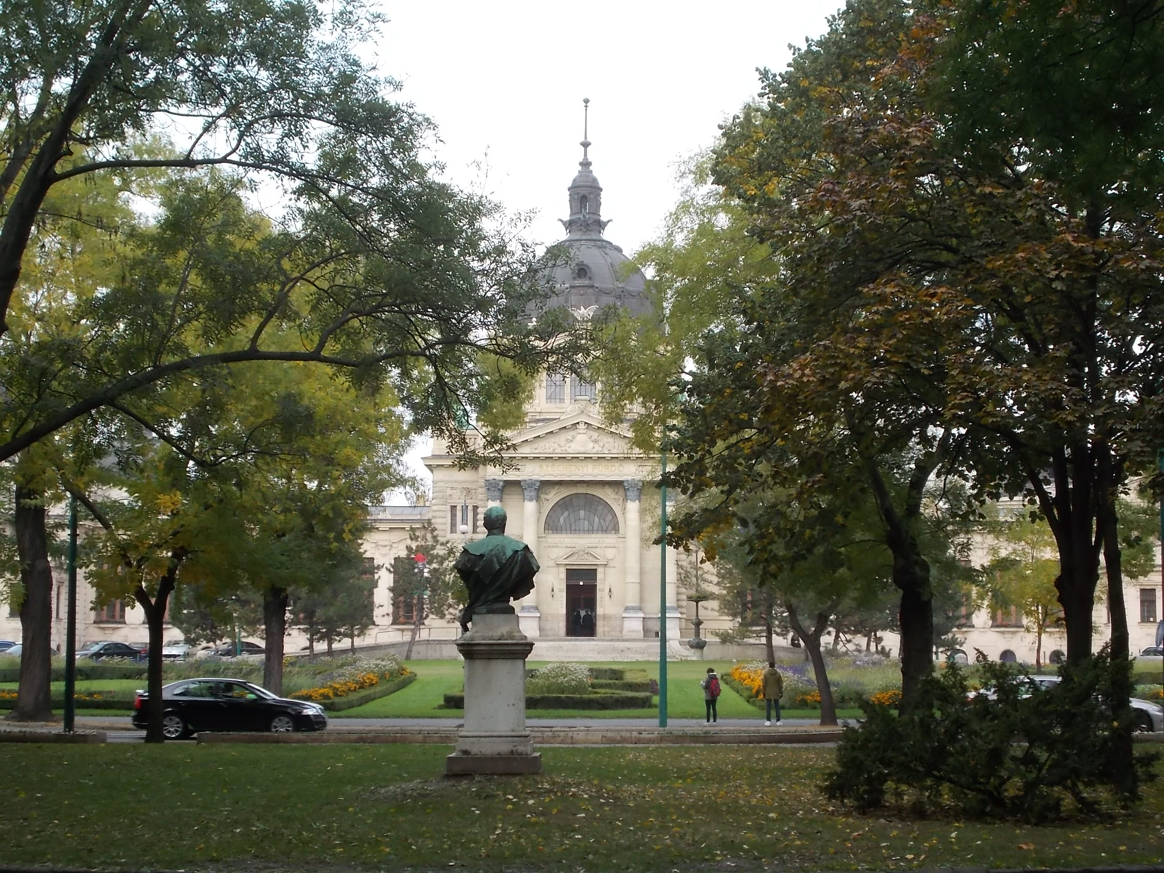 Thermal Bath named after István Széchenyi, planned by Győző Czigler, 1913. - Kós Károly Promenade, Állatkerti Boulvard, Budapest City Park, Budapest District XIV